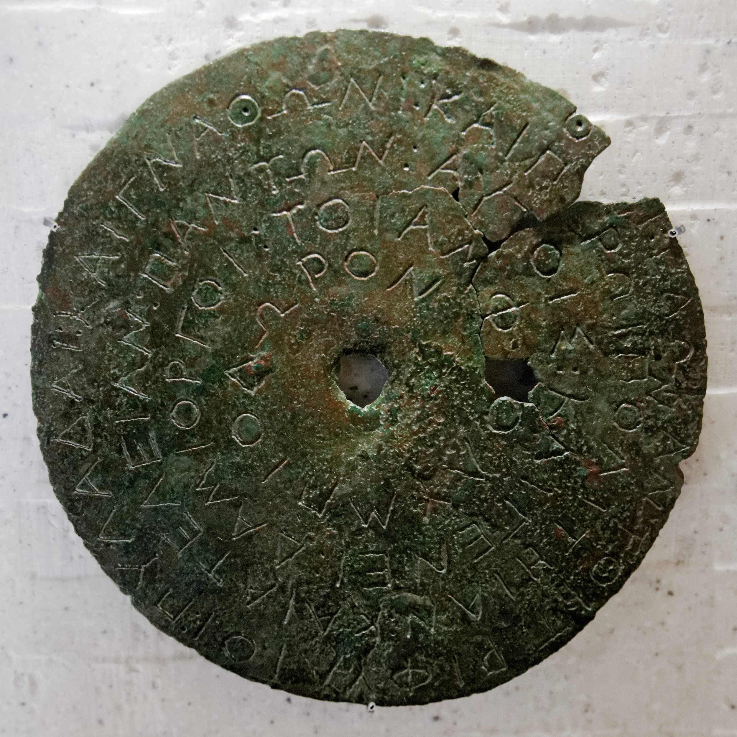 Decree of the Triphylians granting citizenship and immunity from all obligations to three named persons (Pyladas, Gnathon and Pyrus) and their issue. Bronze disc bearing a clockwise spiral inscription beginning at the circumference in Elean dialect.